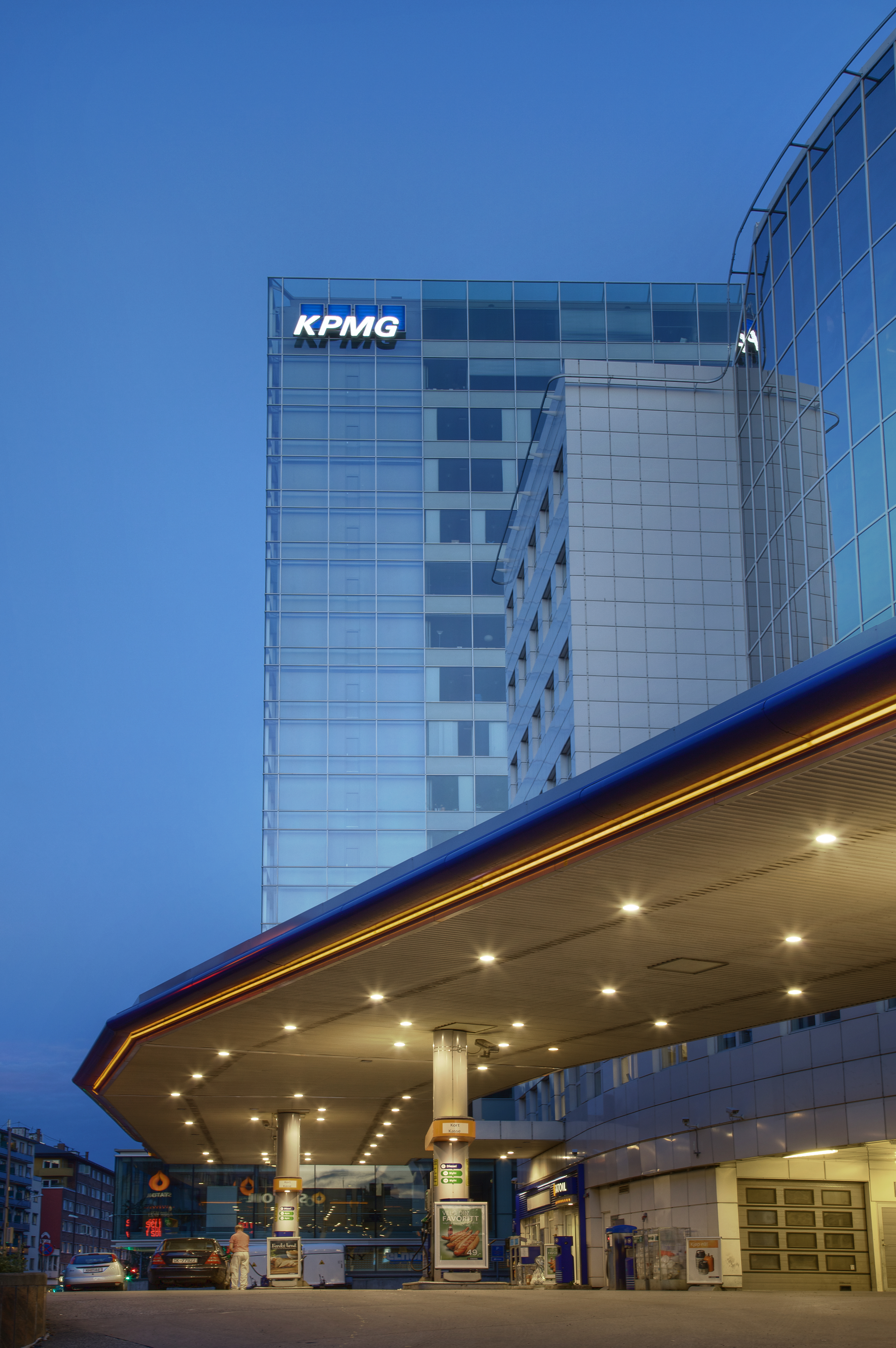 KPMGs office building in Oslo, Norway.